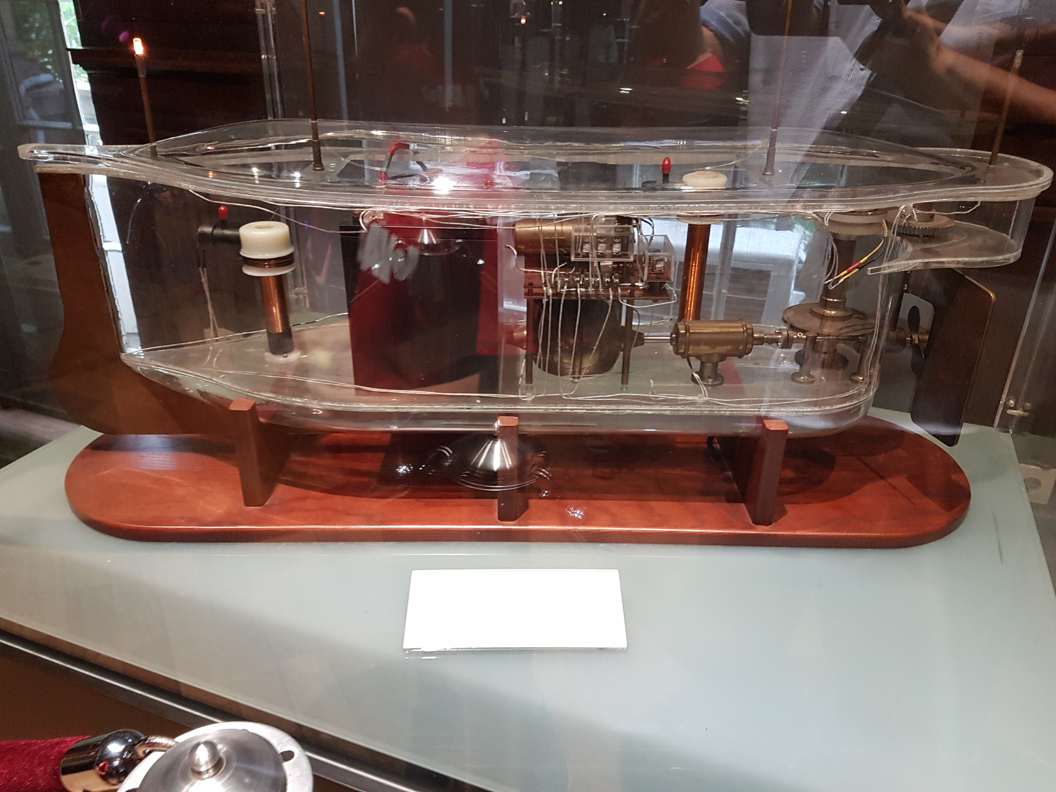 Tesla Boat Robot: In 1898 he filed a patent for a control mechanism for ships and vehicles. He created the first remote-controlled "robot" at Madison Square Garden in New York. It's a small remote controlled wireless boat, which he calls "teleautomaton".